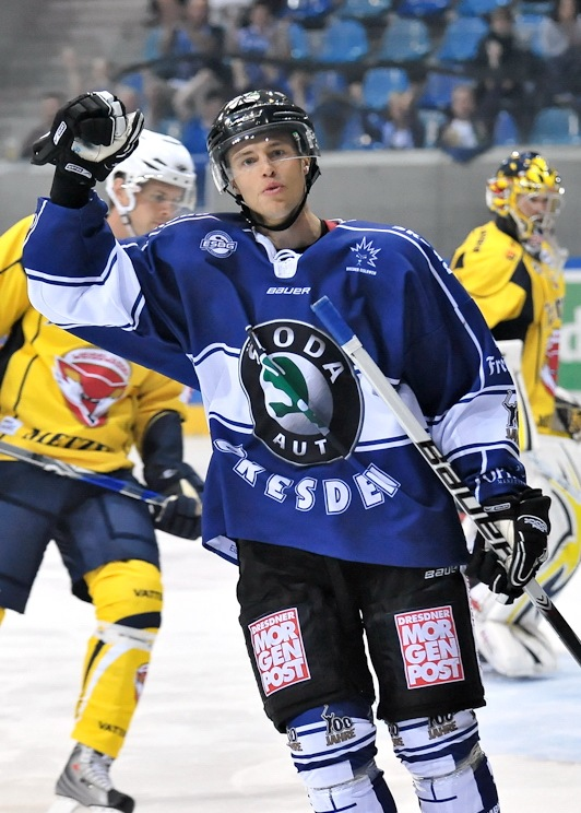 Sami Kaartinen, Dresdner Eislöwen 2009/10